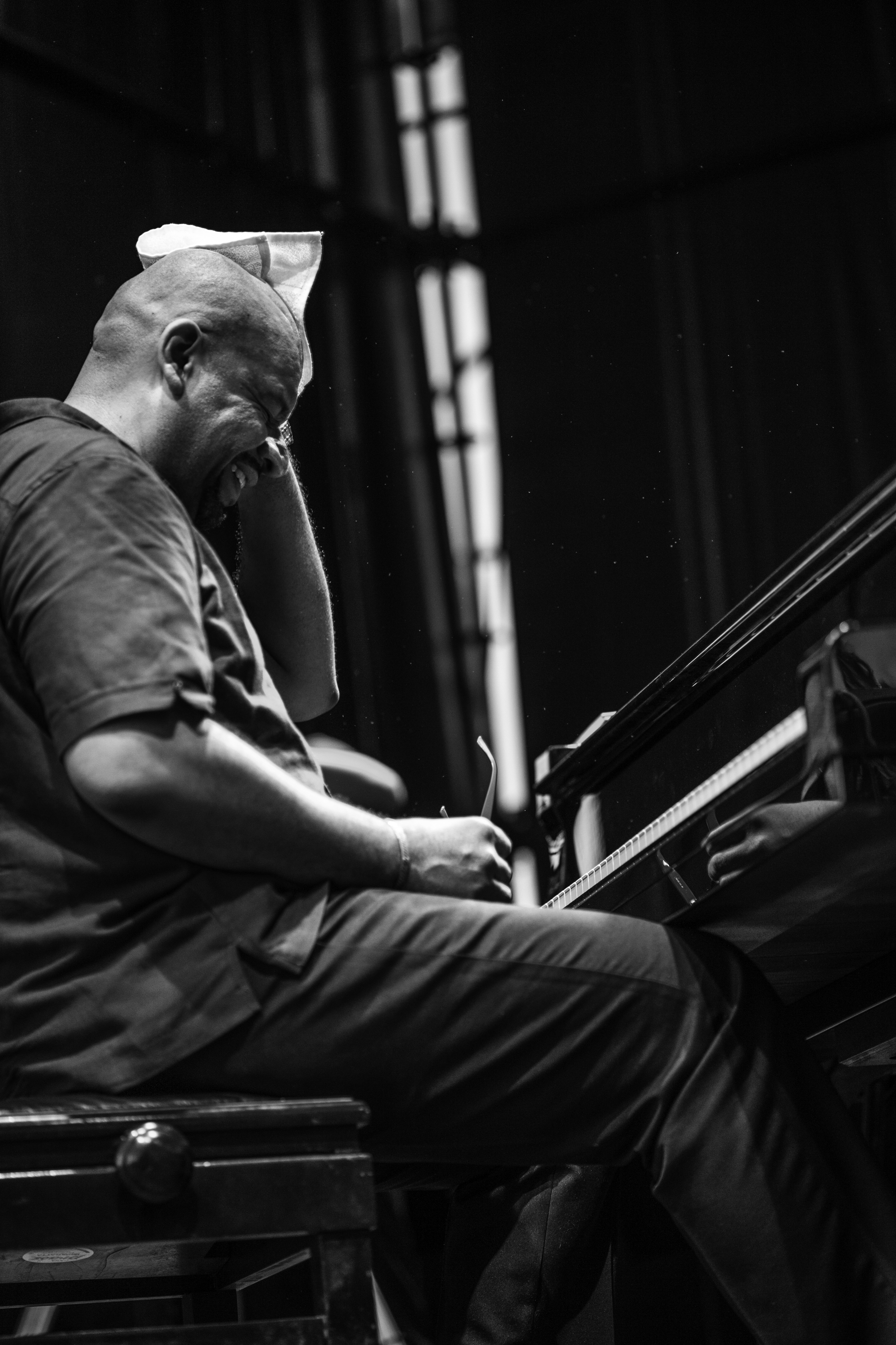 19º FESTIVAL INTERNACIONAL DE JAZZ DE PUNTA DEL ESTE Luis Perdomo Cuarteto Johnattan Blake / batería Hans Glawischnig /bajo Luis Perdomo / piano Mark Shim / saxo tenor – wind controller Martin Wind Cuarteto Homenaje a Bill Evans Bill Cunliffe /piano Joe La Barbera / batería Martin Wind / bajo Scott Robinson / saxotenor Paquito D'Rivera presenta: Homenaje a Chano Pozo Alex Brown /piano Eric Doob / batería Zachary Brown / bajo Pernell Saturnino /percusión Diego Urcola / trompeta Paquito D'Rivera / saxo alto FINCA EL SOSIEGO, Maldonado, Uruguay Camera: Canon EOS 5D Mark II Lens: Zeiss Makro-Planar T* 2/100 ZE 5 ISO: 1250